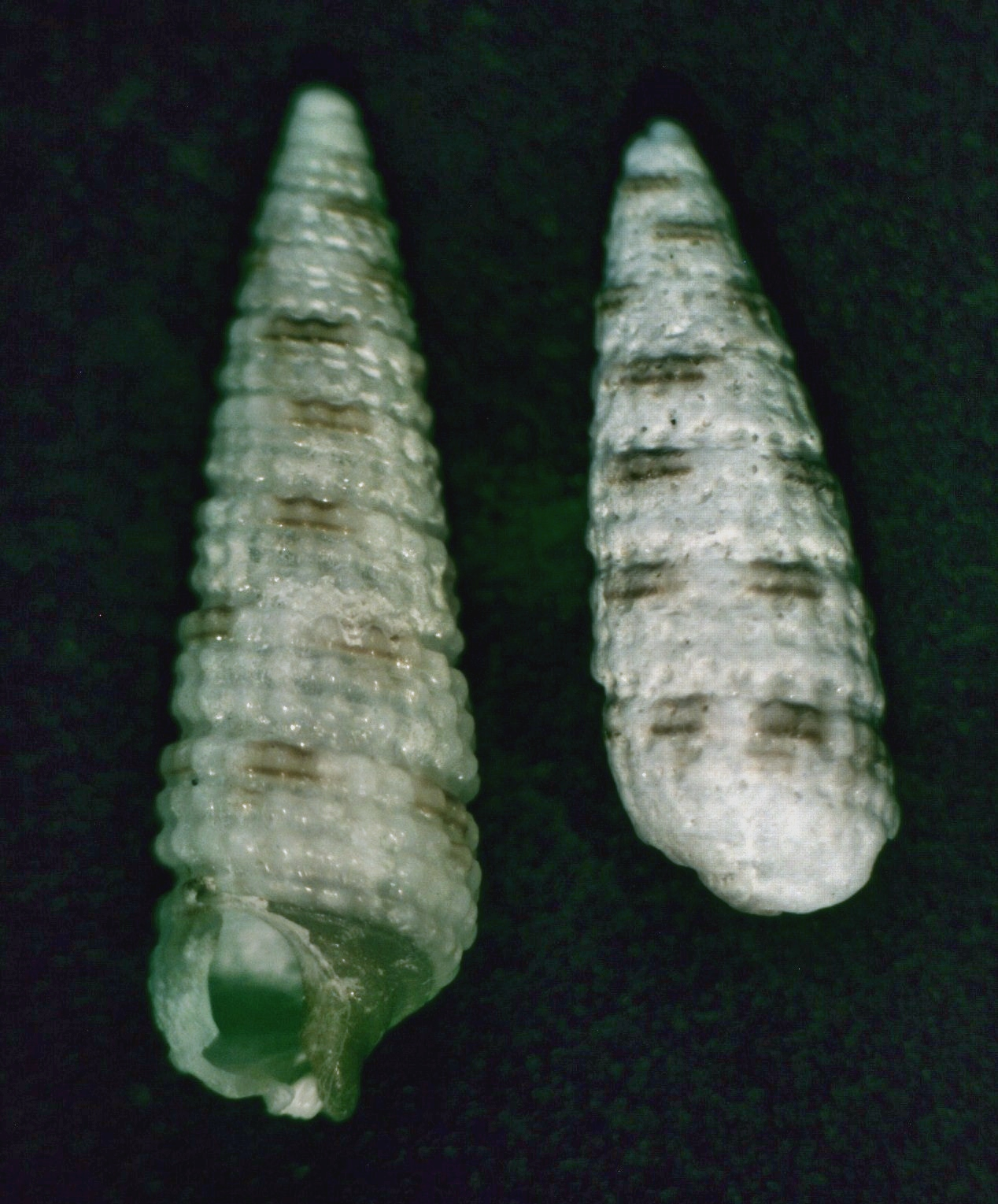 Aclophoropsis festiva (A. Adams, 1851), a sea snail in the family Triphoridae; South Australia